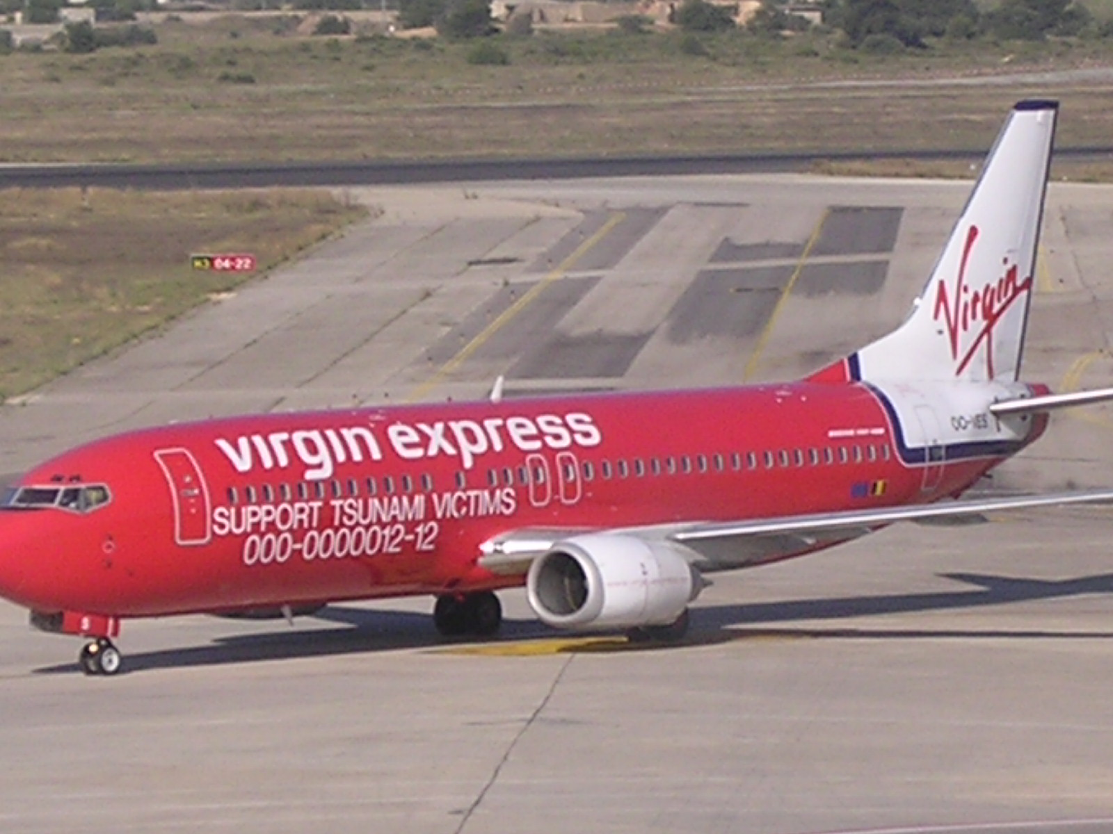 A Virgin Express aeroplane in Valencia, Spain.